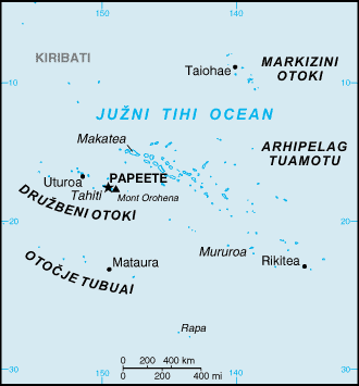 Map of French Polynesia in Slovene.